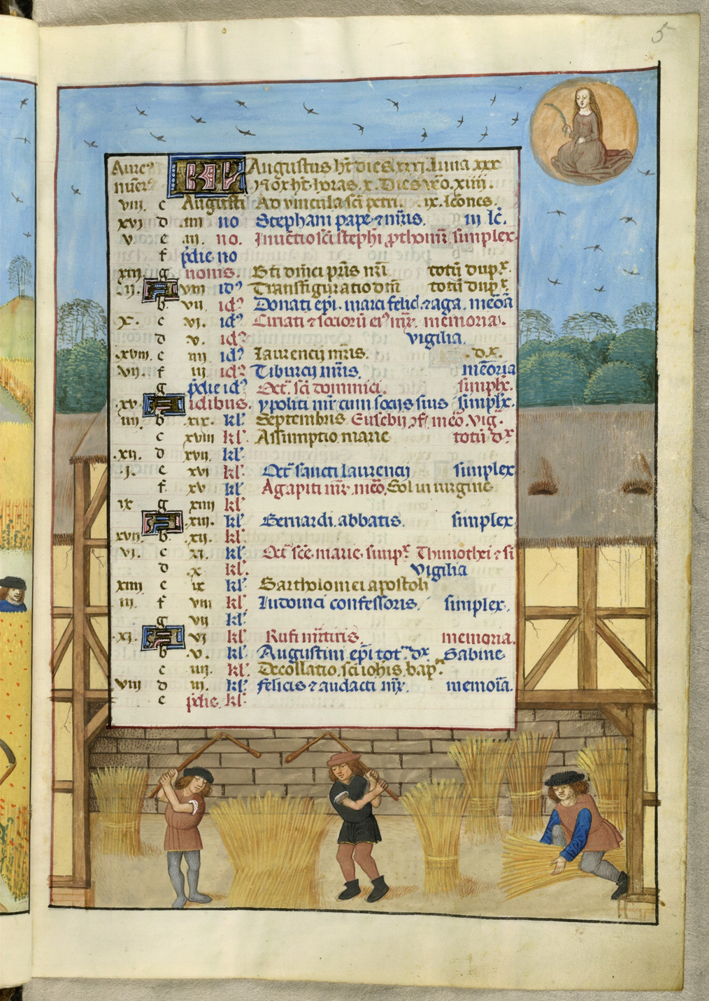 On this calendar page for August, the zodiac sign for Virgo (the Virgin) is depicted as a young woman holding a martyr's palm. Below her a group of men continue labouring to finish the harvest, threshing wheat and gathering it into sheaves inside a timbered barn.